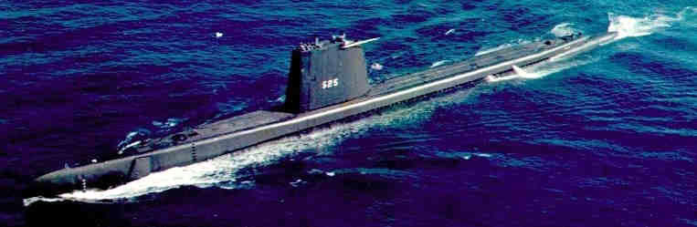 USS Grenadier (SS-525) underway, circa the 1960s (enhanced and cropped).